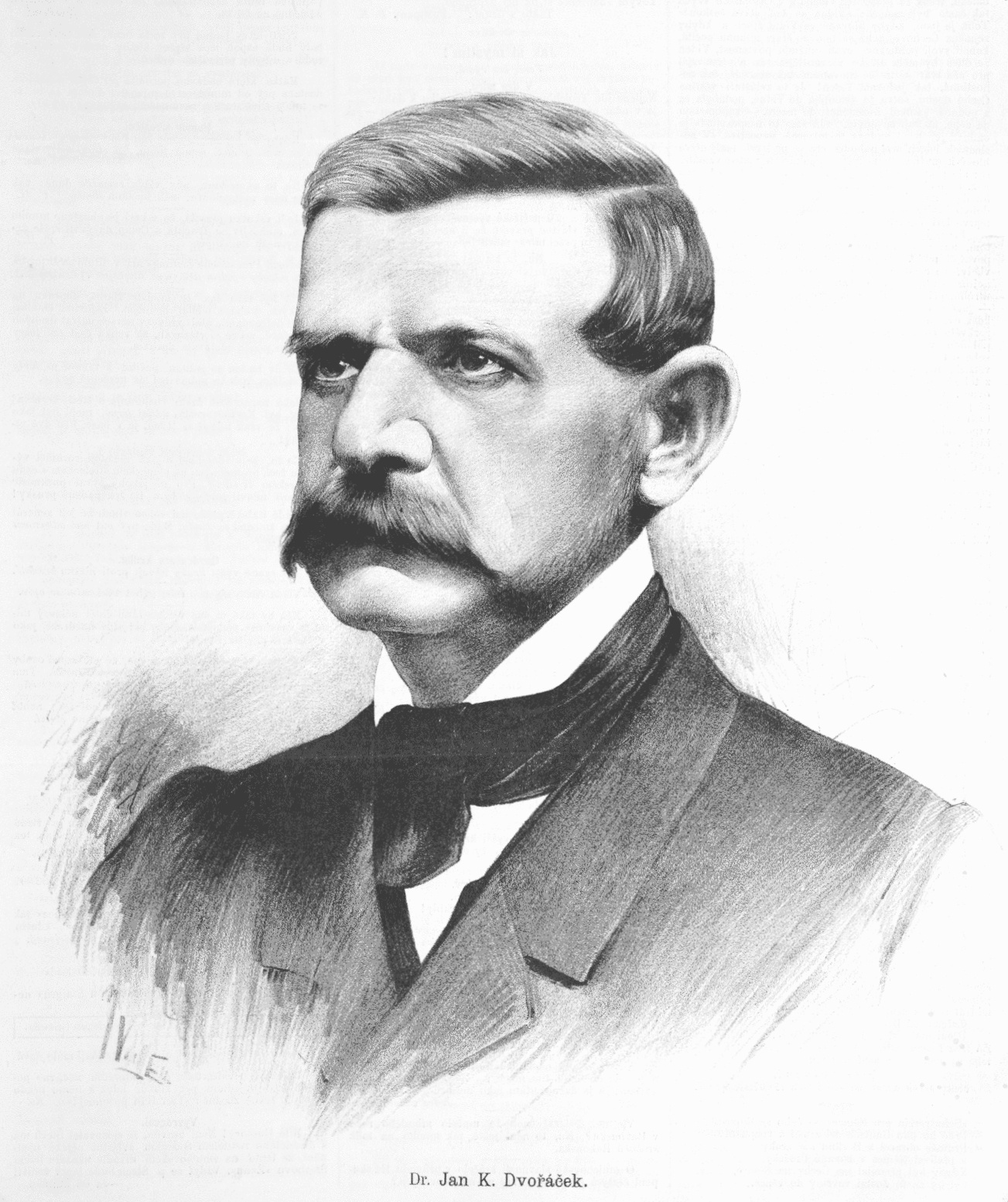 Jan Dvořáček